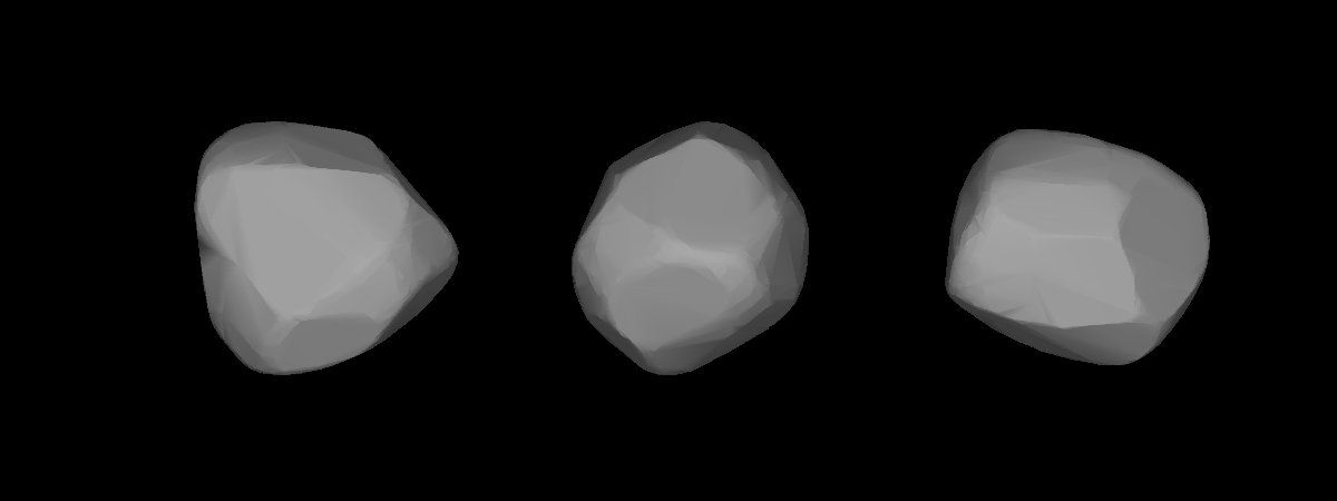 A three-dimensional model of 230 Athamantis that was computed using light curve inversion techniques.